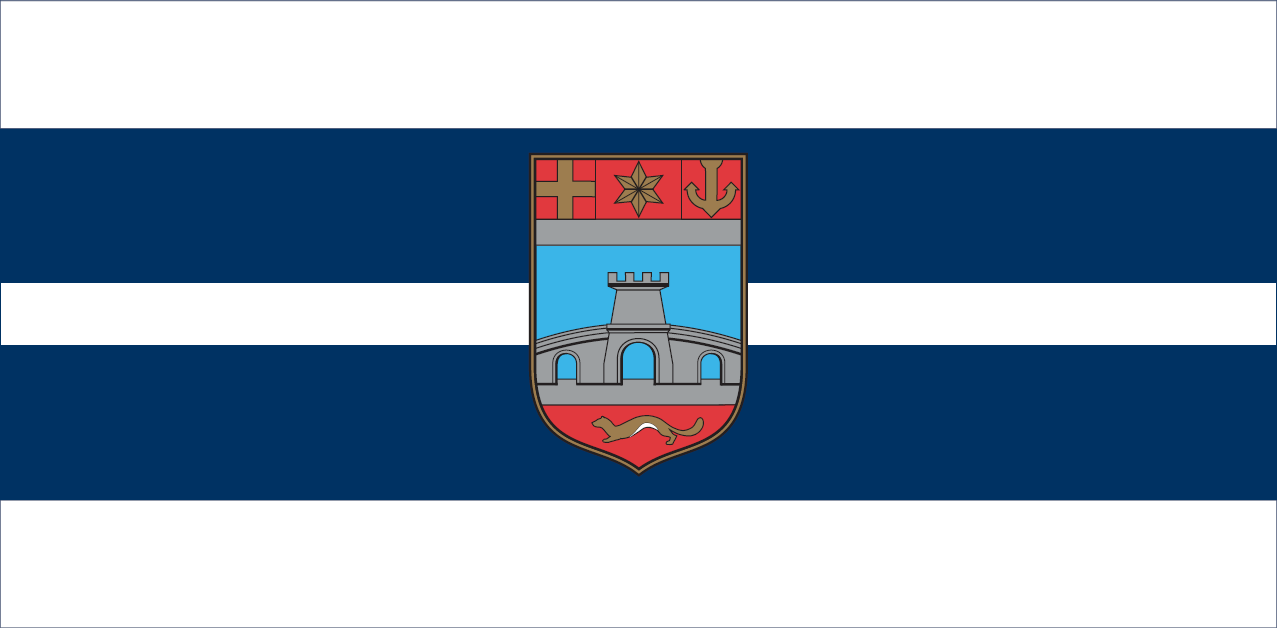 Flag of the Osijek-Baranja County